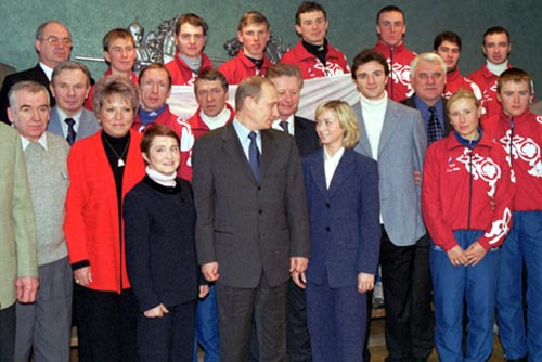 PLANERNAYA TRAINING CENTRE, THE MOSCOW REGION. President Putin with members of the Russian Olympic select team.